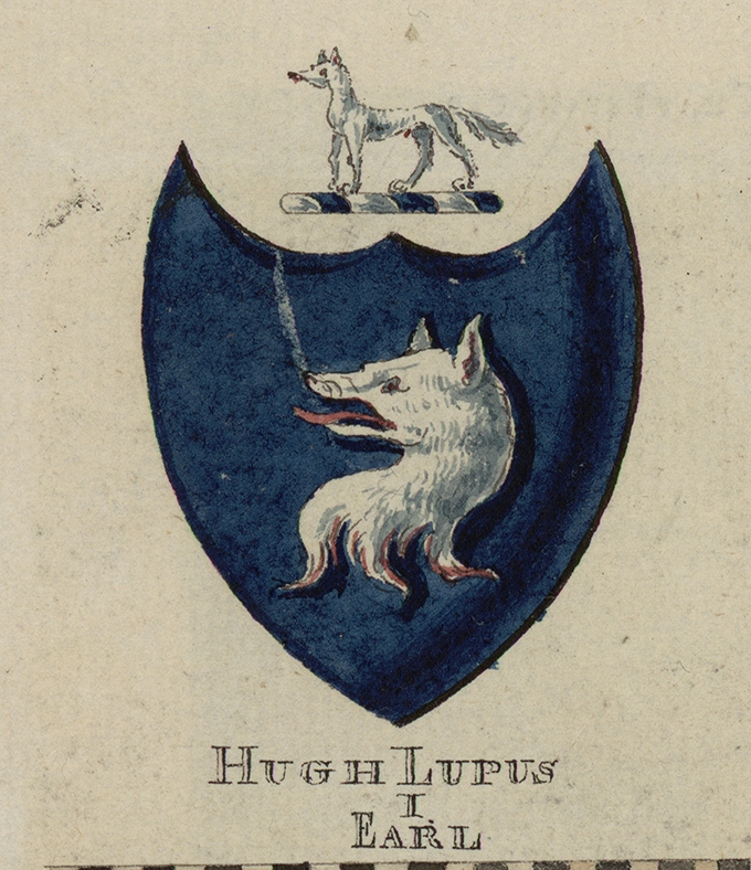 An image from a set of 8 extra-illustrated volumes of A tour in Wales by Thomas Pennant (1726-1798) that chronicle the three journeys he made through Wales between 1773 and 1776. These volumes are unique because they were compiled for Pennant's own library at Downing. This edition was produced in 1781. The volumes include a number of original drawings by Moses Griffiths, Ingleby and other well known artists of the period. Thomas Pennant (1726-1798)